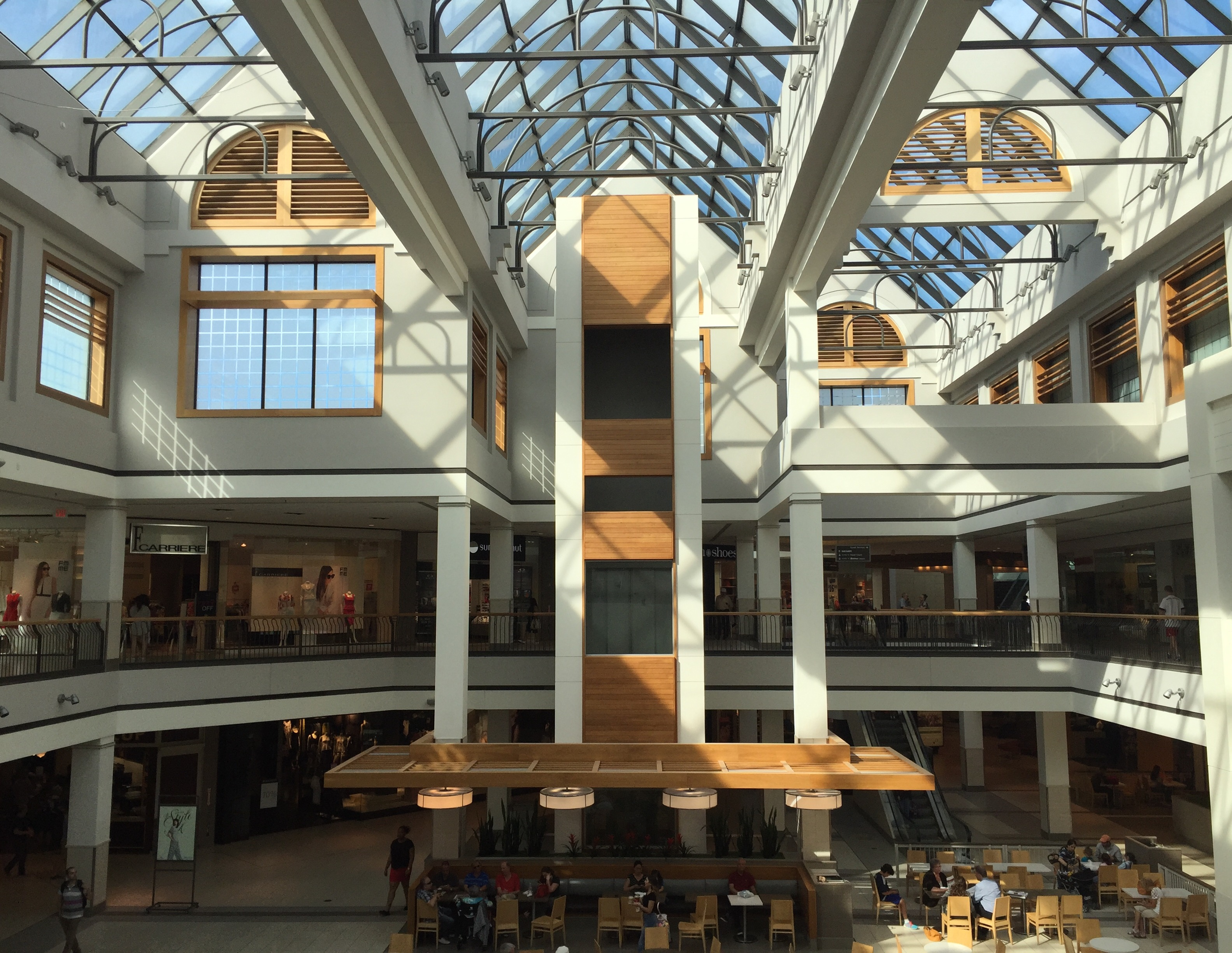 Interior shot of Promenade Shopping Centre in Thornhill, Ontario, Canada